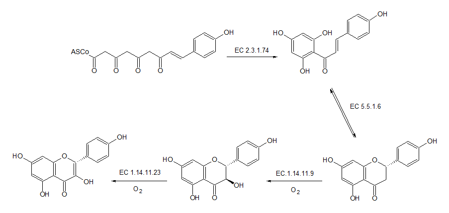 Biosynthesis of flavonol kaempferol. Drawn by myself.